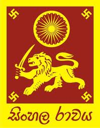 Sinhala Ravaya Logo